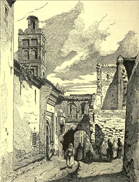 Tlemcen end of XVIII.